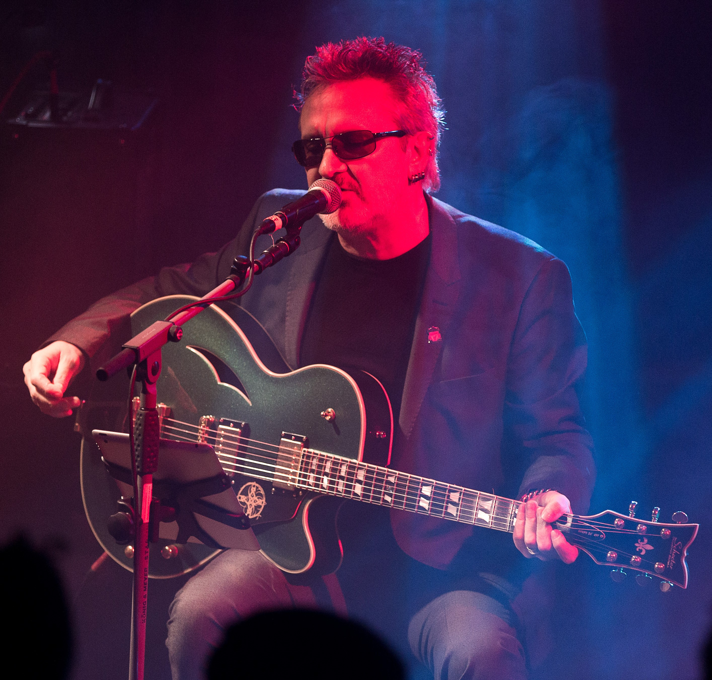 Cropped version British musician Wayne Hussey at the Kasematten-Festival 2016 in Langenstein/Germany